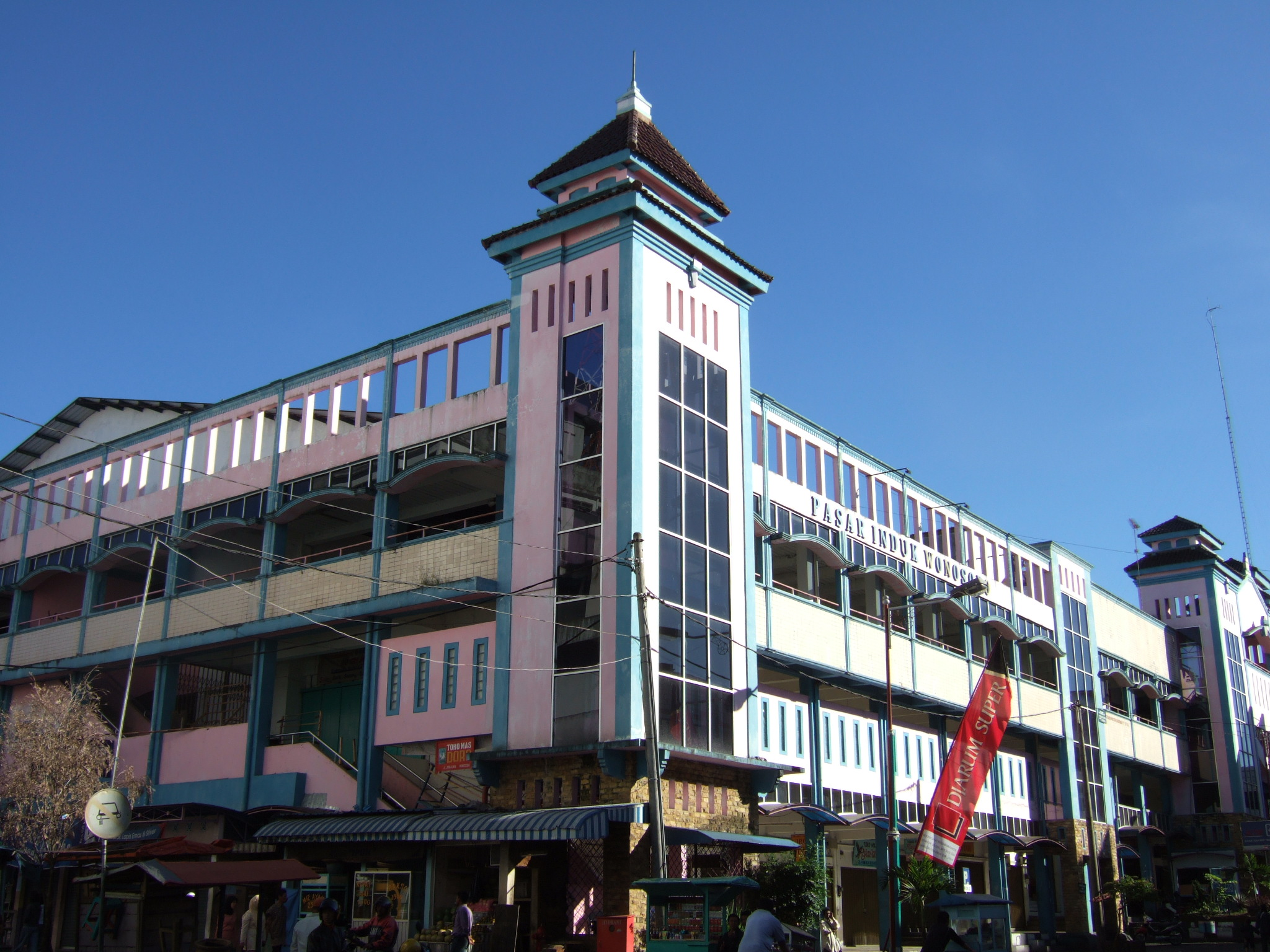 Wonosobo central market, Central Java, Indonesia